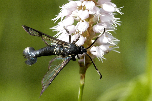 Picture taken in Commanster, Belgian High Ardennes . Species: Synanthedon spheciformis